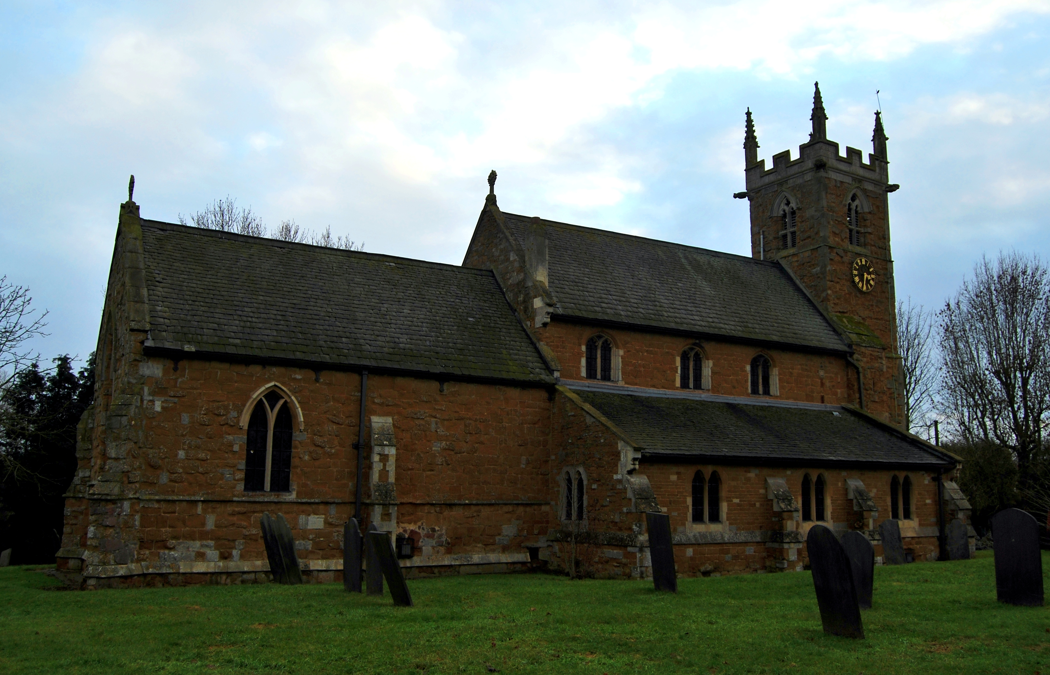 Thrussington Holy trinity Church